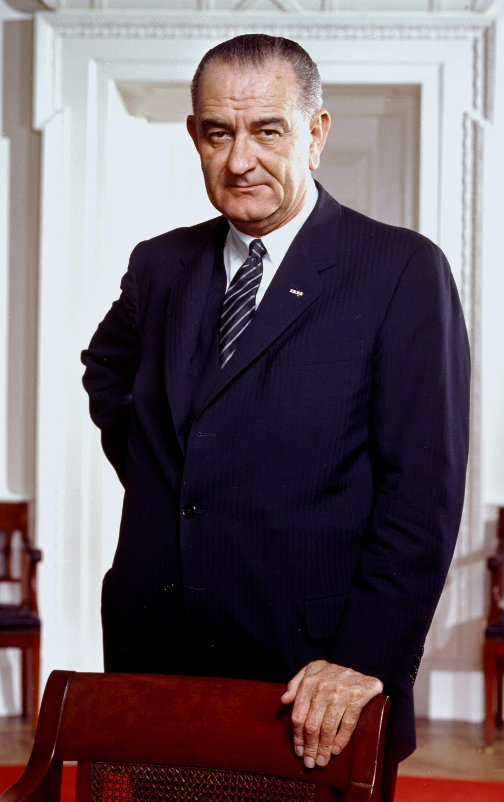 Photo portrait of President Lyndon B. Johnson in the Oval Office, leaning on a chair.